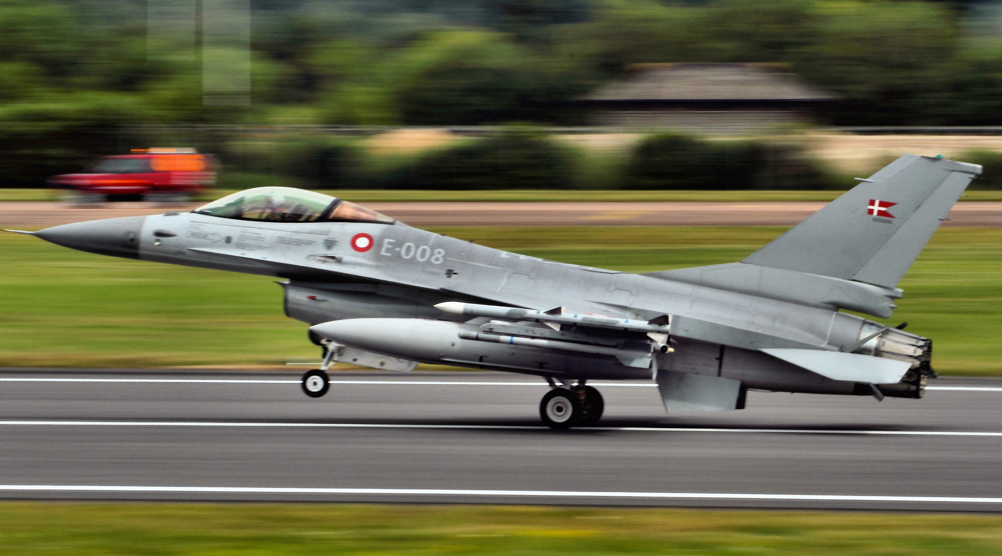 I dabbled a bit with shutter settings for landing and take-off shots at RIAT this year. Some worked, some were epic fails lol. This is somewhere in between. The plane itself was not fabulously in focus so messed around a bit within editing. Certainly not one of my better efforts but still has some creative impact ;-)